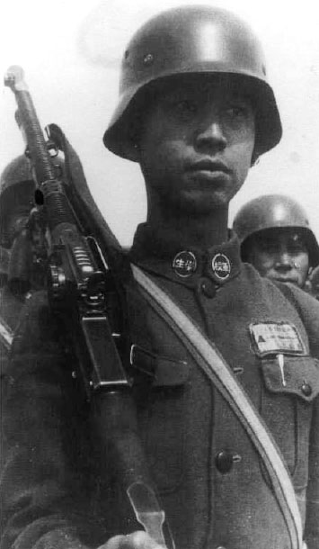 A cadet at the Central Military Academy, Republic of China, 1930s